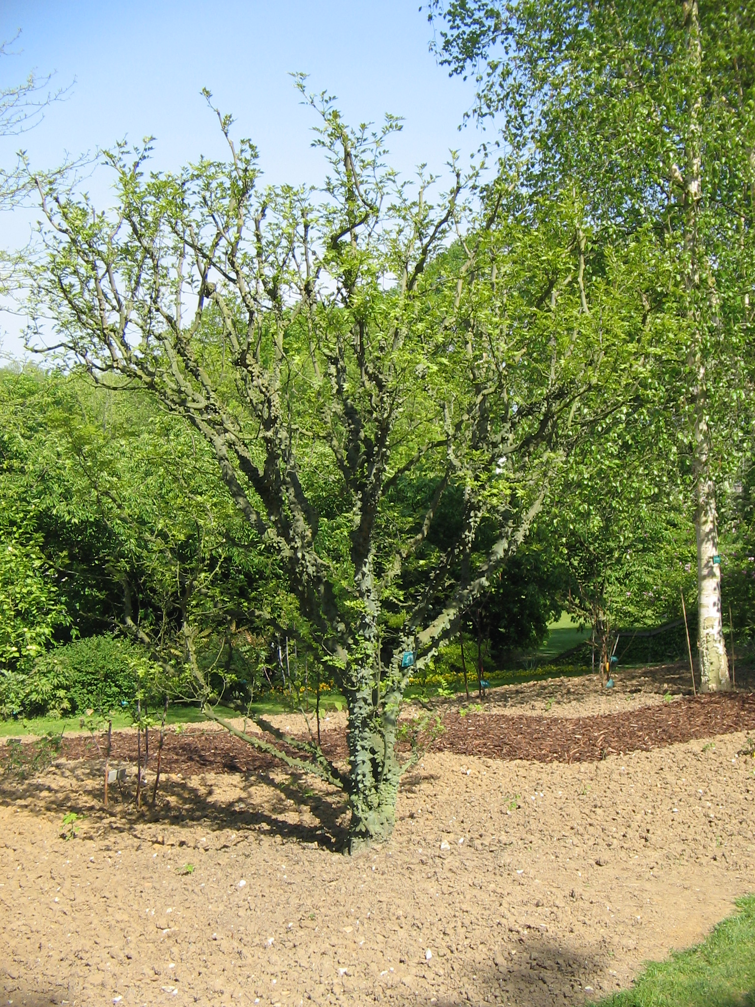 Zanthoxylum americanum